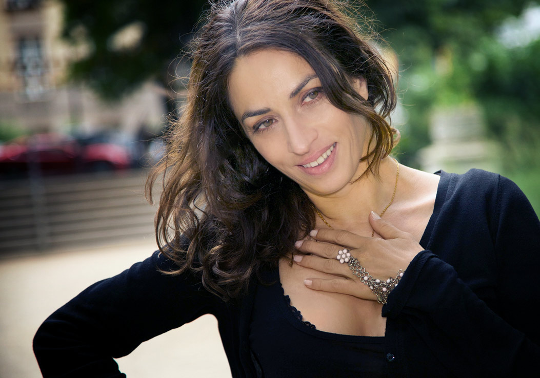 German Turkish Actress